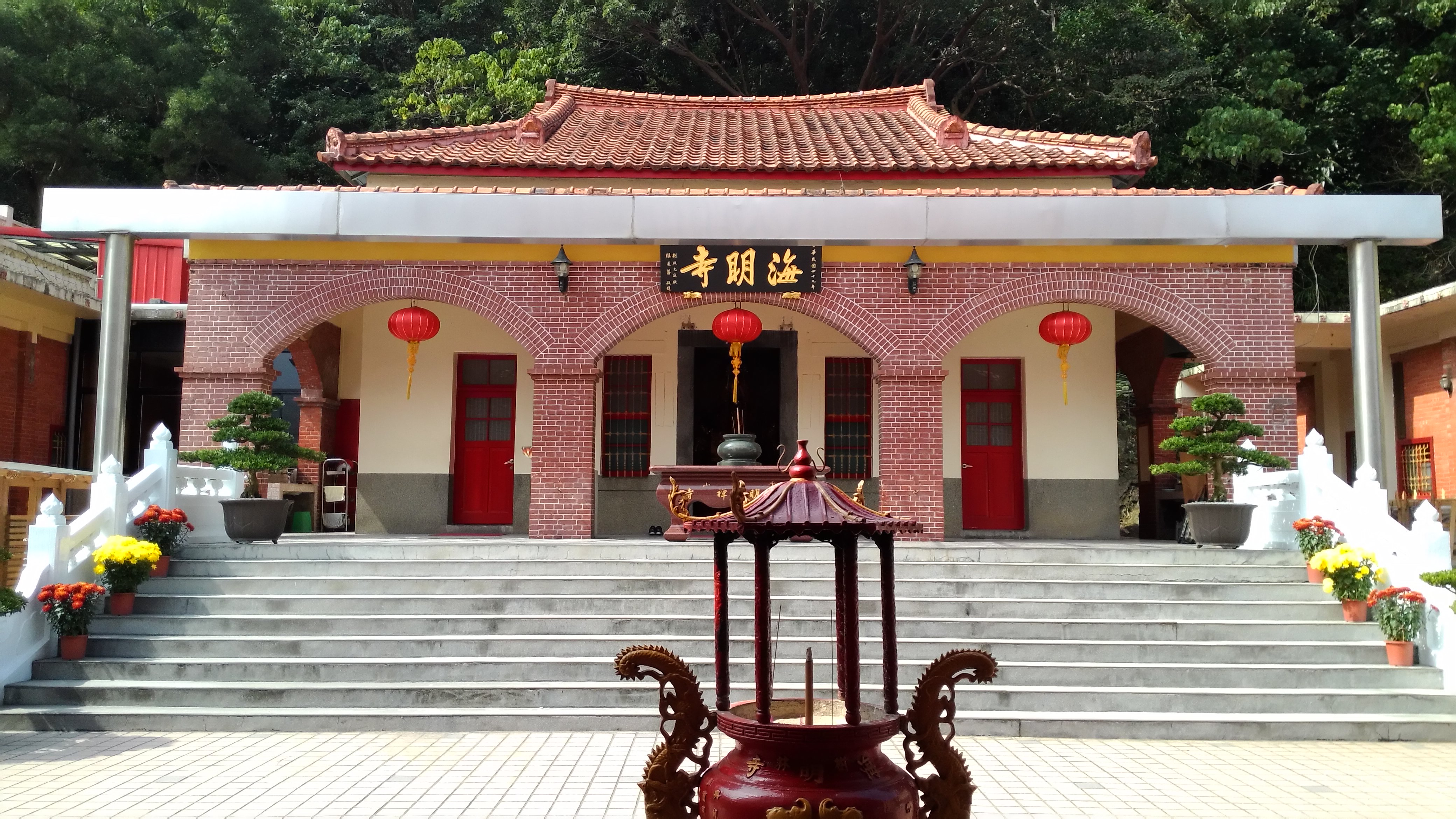 zip code:238, N0.22 Hai-ming street, Shulin District, New Taipei City, Taiwan